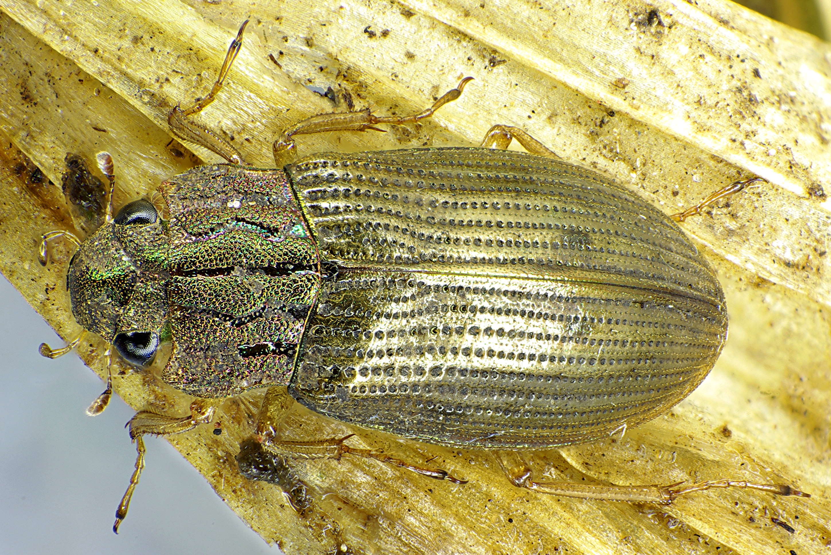 Helophorus grandis from Southern Germany at 2012-03-27